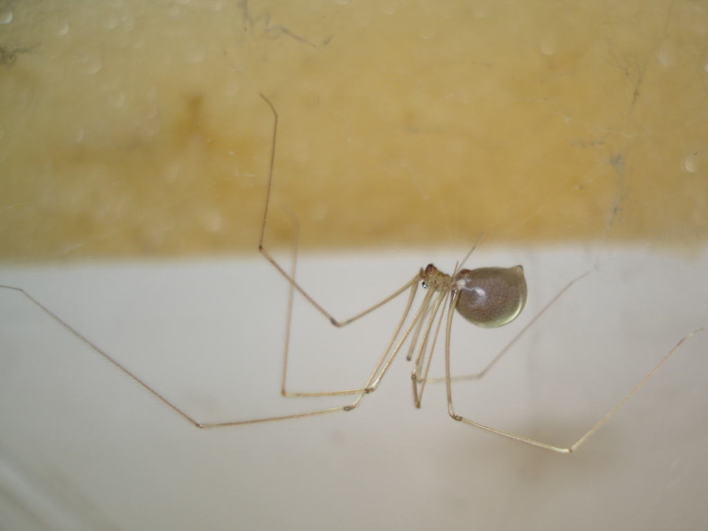 The daddy-long-legs spider or cellar spider (also known as skull spider due to its cephalothorax looking like a human skull (Pholcus phalangioides))